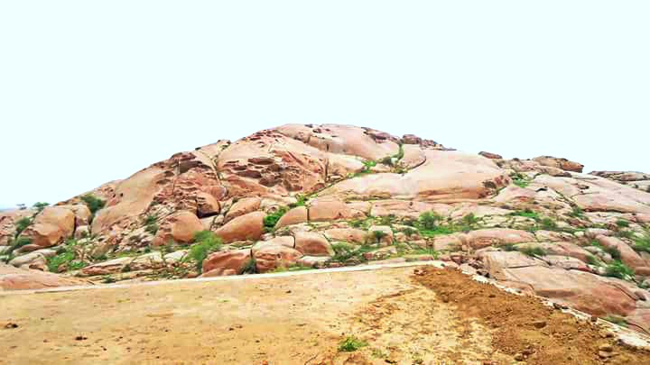 This is Churrio Jabal (Churrio Hill), situated in Nangarparkar, Tharparkar, Sindh, Pakistan, for its granite and temple of goddess Durga.